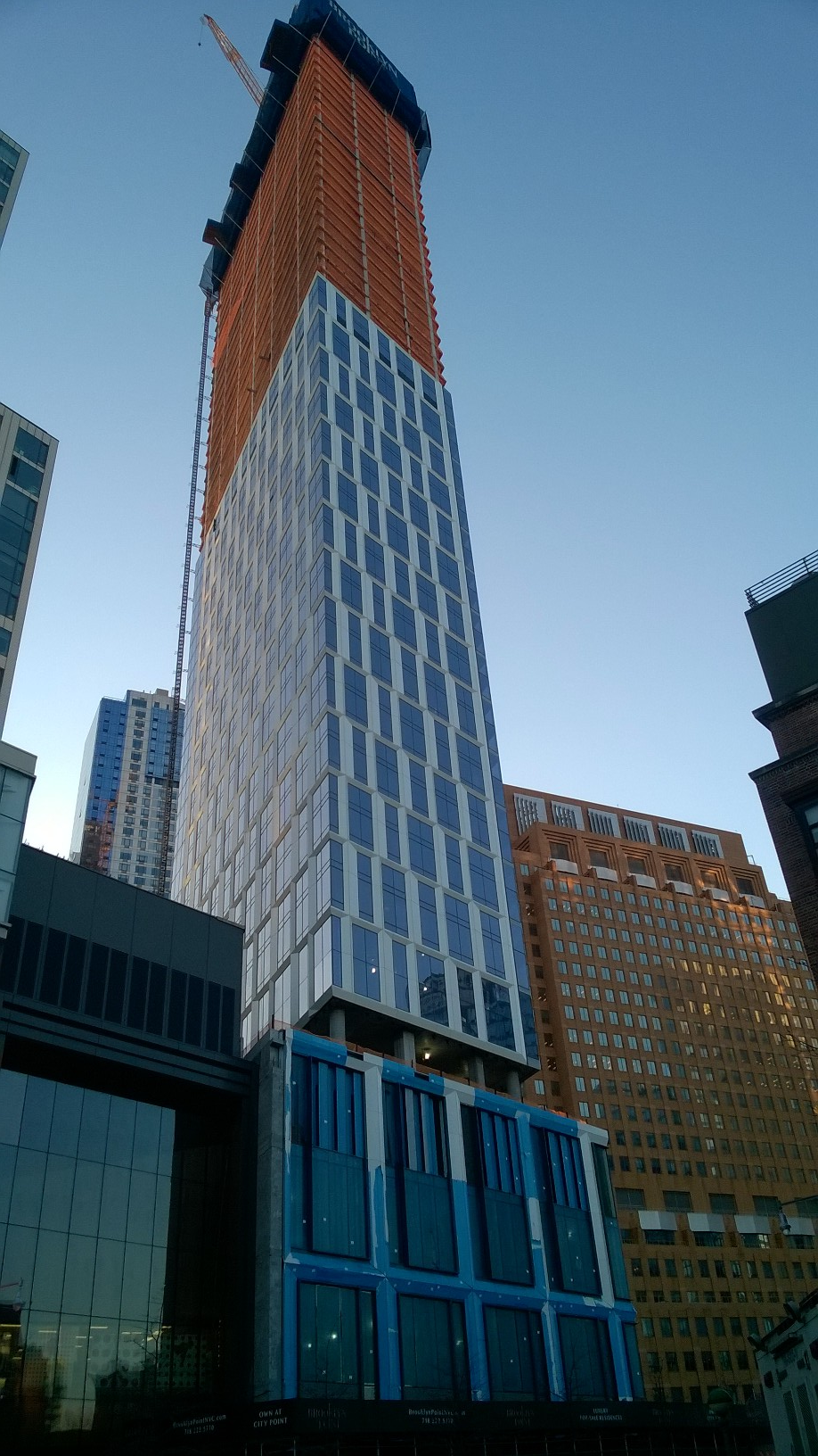 One Brooklyn Point, under construction in Downtown Brooklyn, on April 6, 2019.